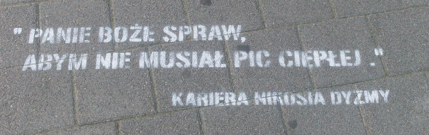 Quotation from polish film "Career of Nikos Dyzma". Painting at pavement 10 Lutego Street in Gdynia. Promote Polish Film Festival in Gdynia.